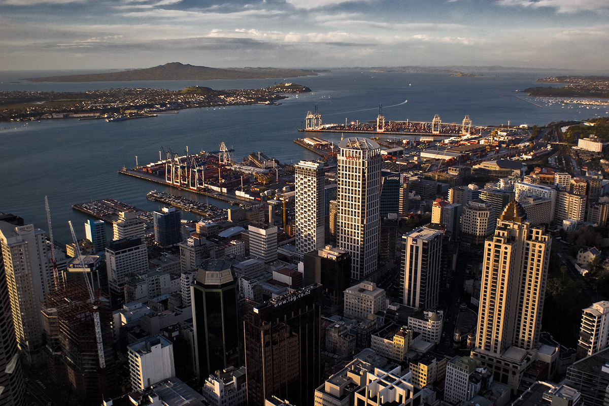 Auckland (New Zealand) CBD view from the Sky Tower.